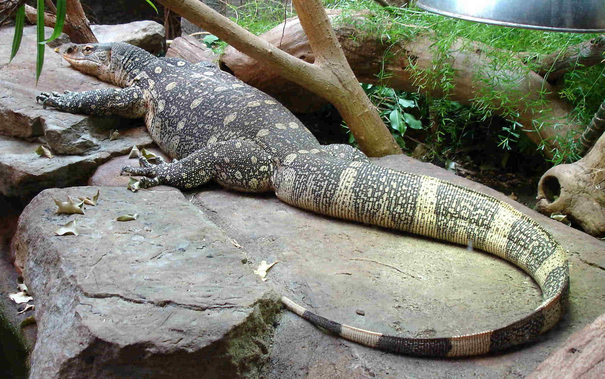 A Nile Monitor (Varanus niloticus) at London Zoo